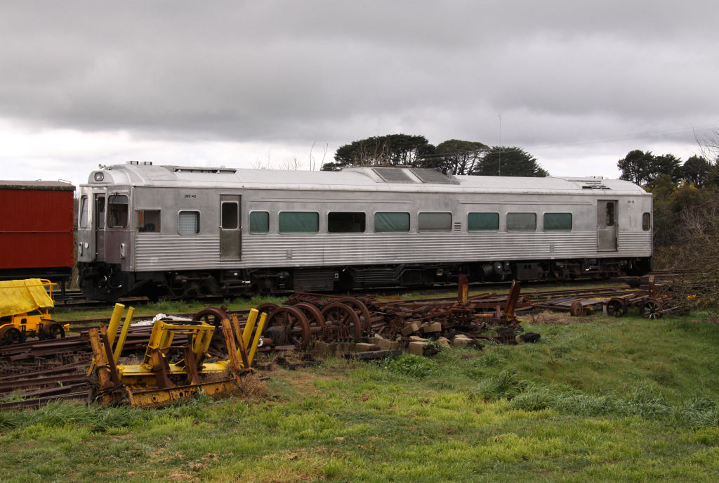 Former V/Line DRC railcar DRC4 at the Daylesford Spa Country Railway, Victoria